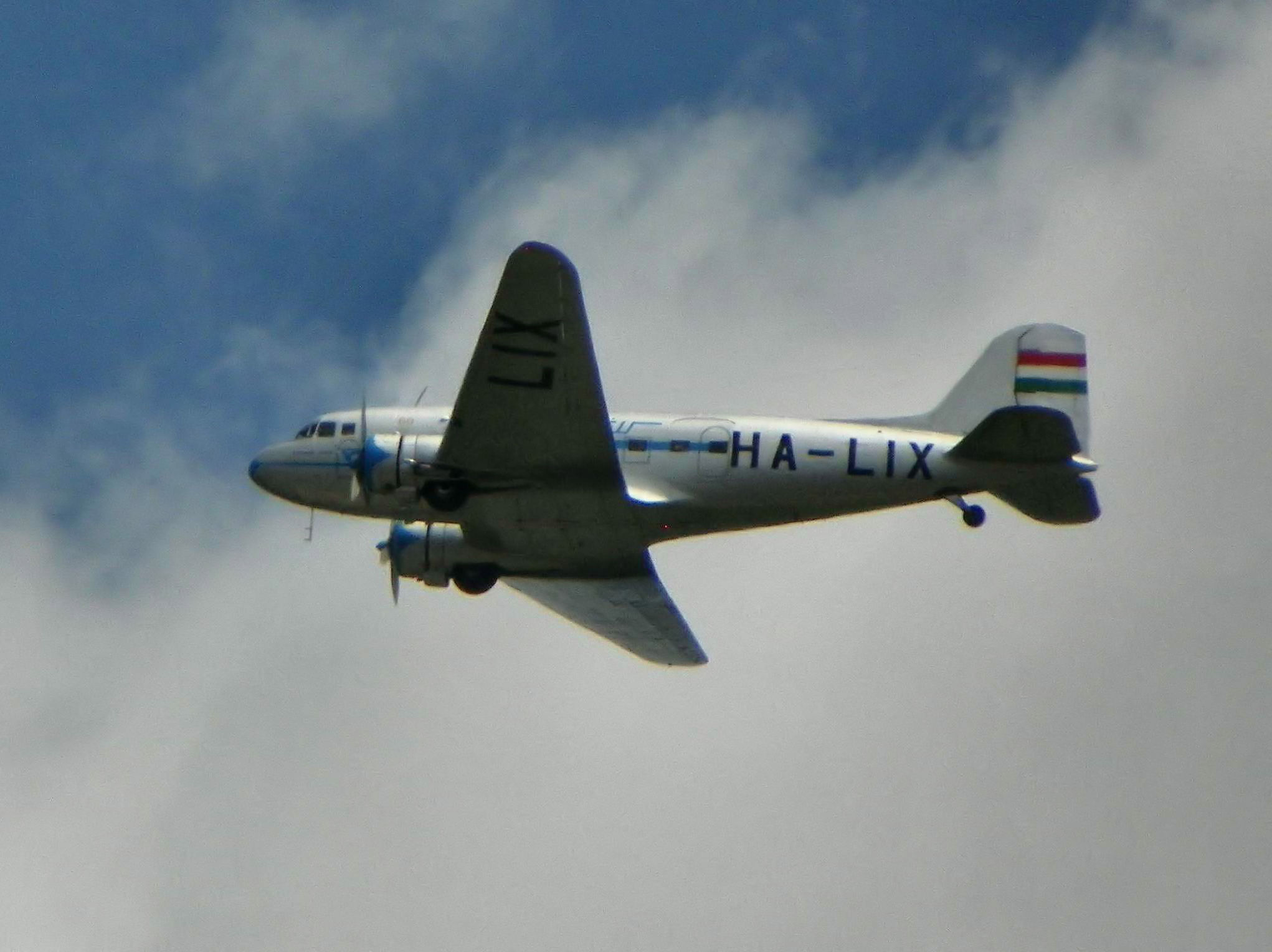 LI-2 over Esztergom, Hungary